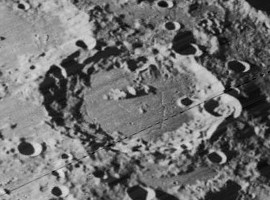 Oblique view of Nernst crater, on the moon, facing south.